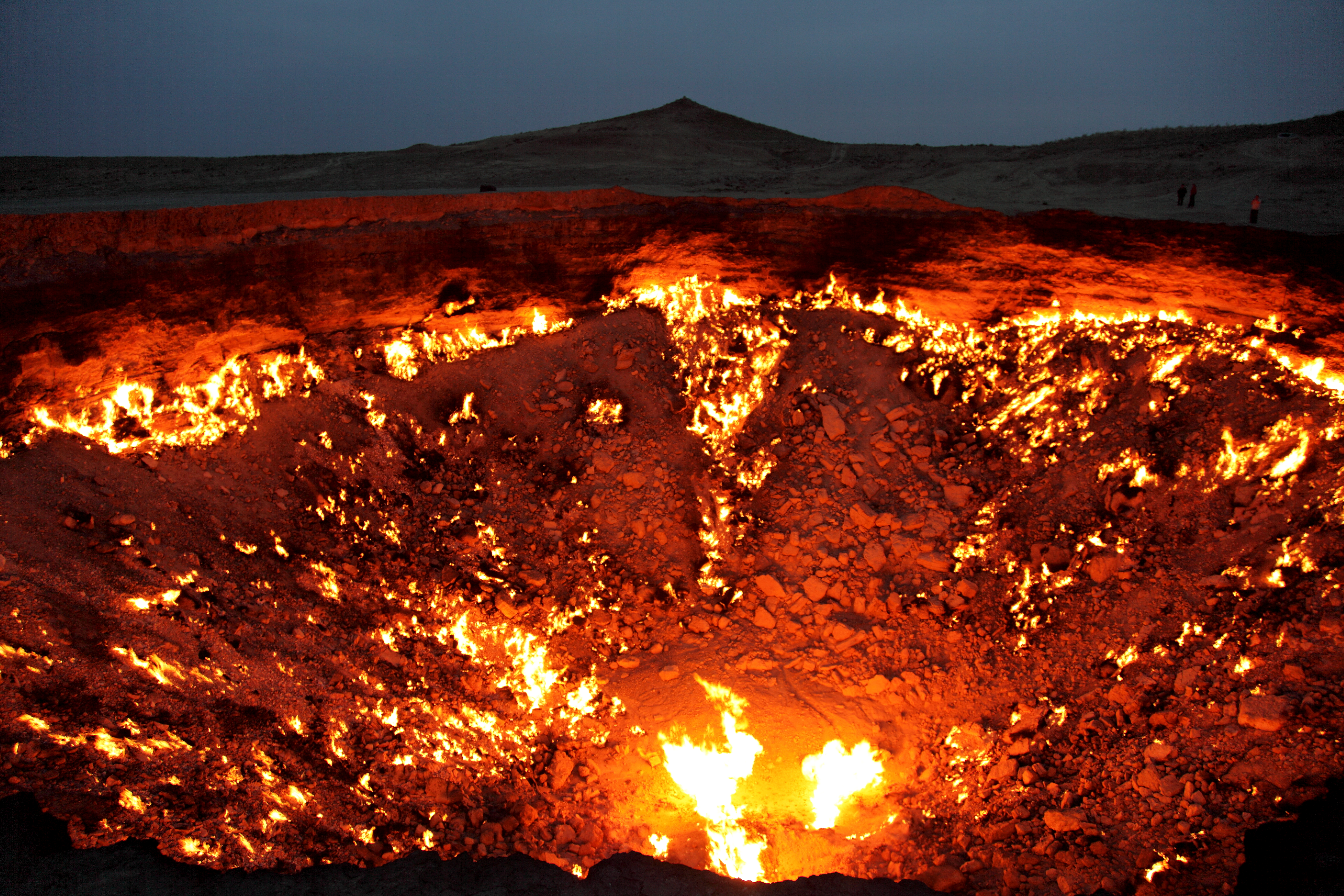 The Door to Hell (in the nighttime) / Turkmenistan, Darvaza Česky: Brána do pekla (v noci), Darvaza, Turkmenistán